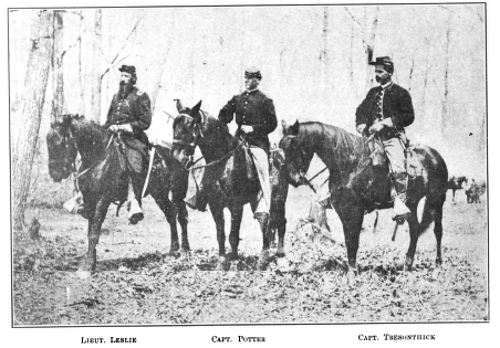 This is a crop of a photo of 3 officers from the 18th Pennsylvania Cavalry in the American Civil War. The men are Joseph L. Leslie, Henry C. Potter, and Samuel H. Tresonthick. Potter and Tresonthick, both lieutenants at the time, were at the rear of the regiment when it was attacked in the Battle of Hanover.